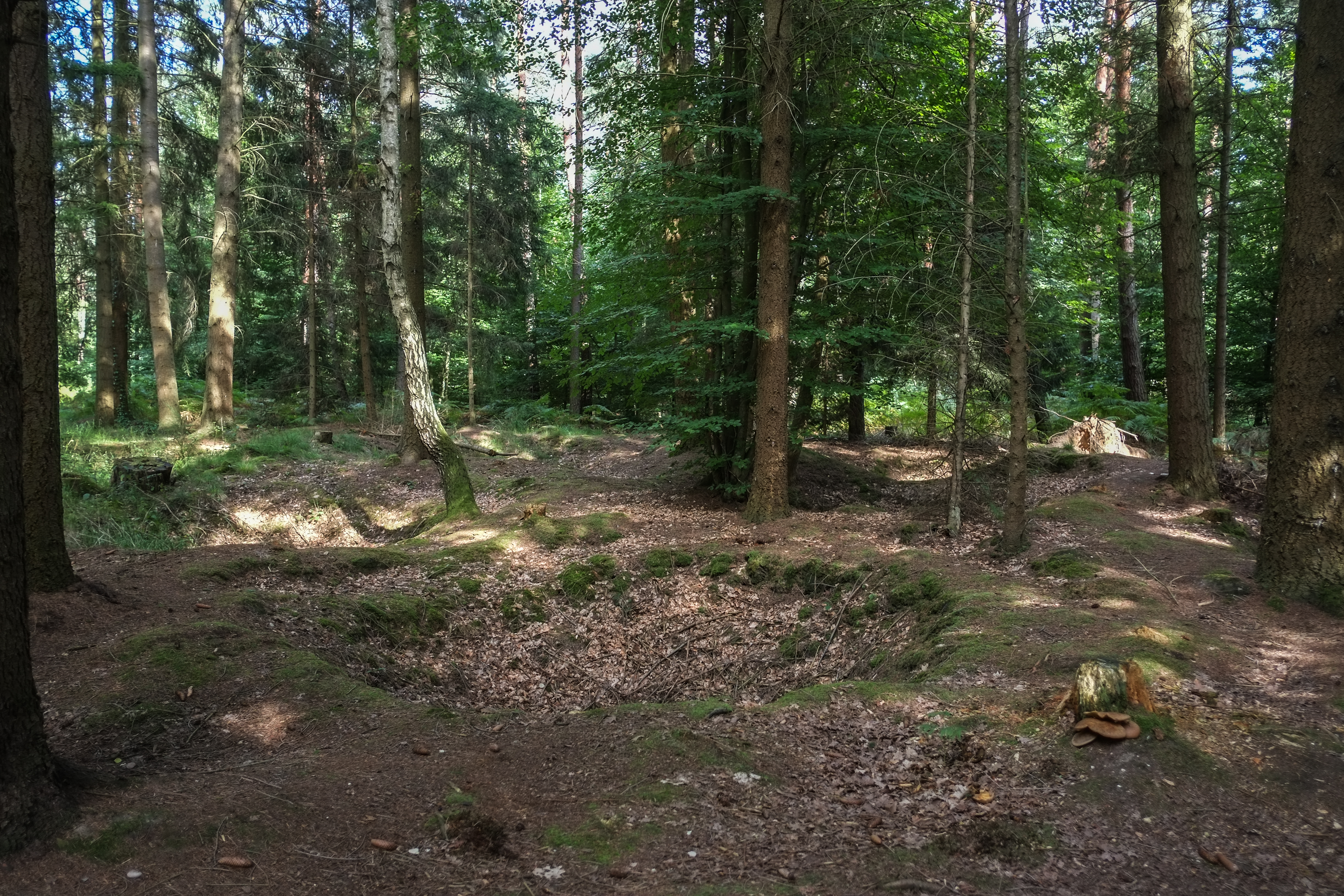 Anti–tank obstacle in the Bienwald, Schaidt, Wörth am Rhein, district Germersheim, Rhineland-Palatinate, Germany